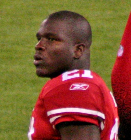 Frank Gore of the San Francisco 49ers in 2009 vs Chicago Bears